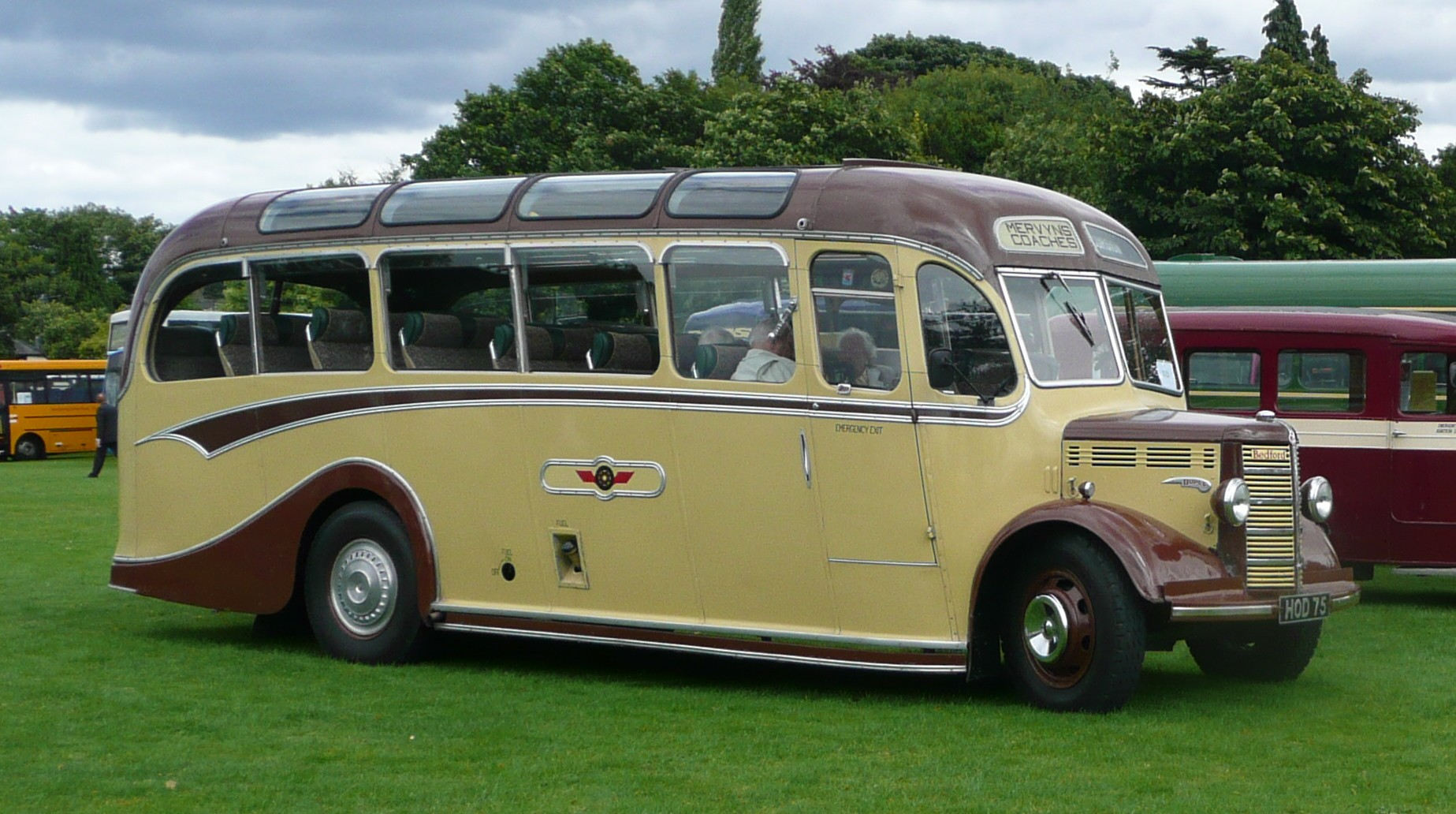 Partly preserved Mervyns Coaches HOD 75, a Bedford OB, at the 2008 Alton bus rally at Anstey Park. It is used as a heritage vehicle.